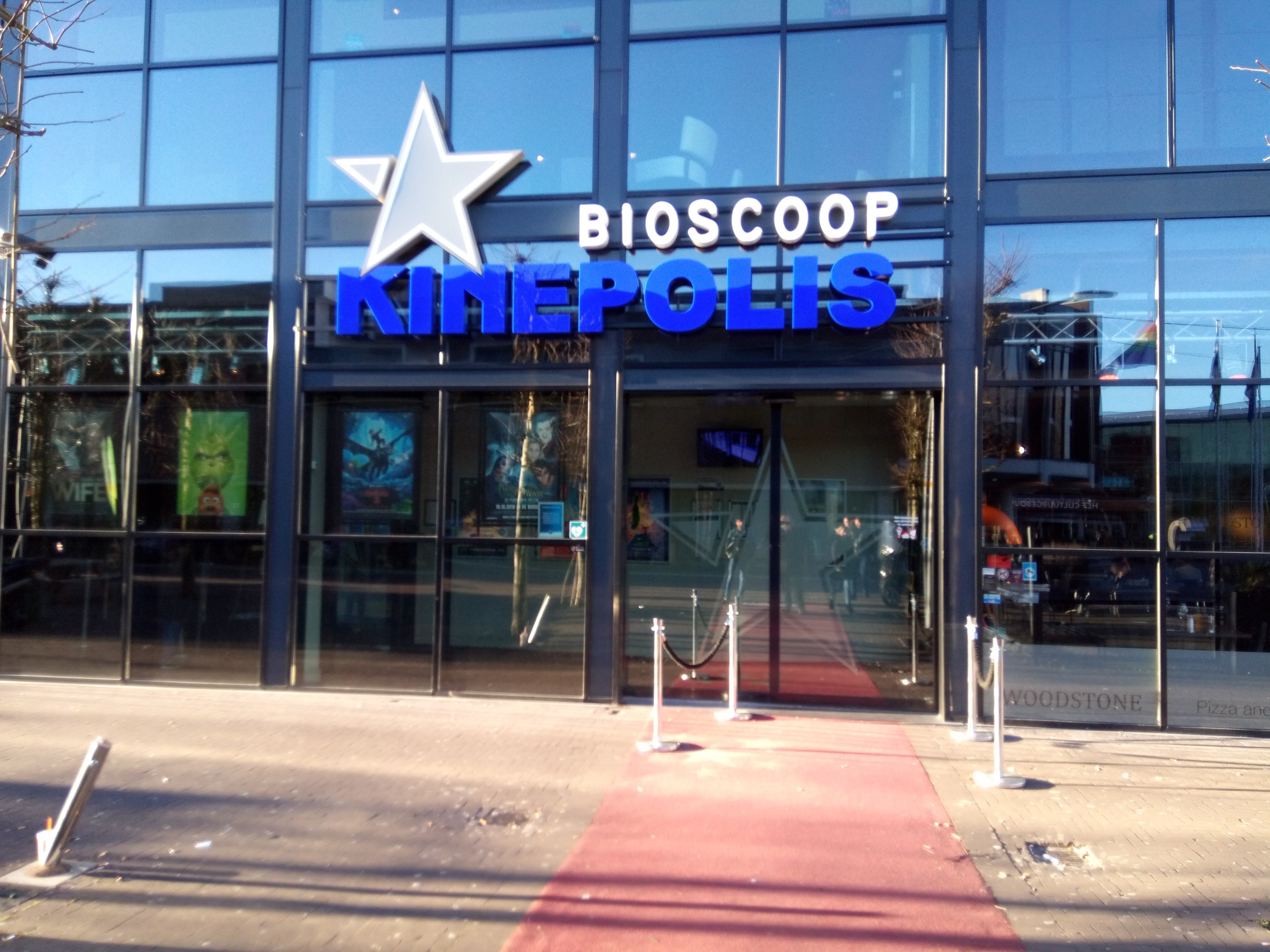 Kinepolis cinema in Hoofddorp, the Netherlands